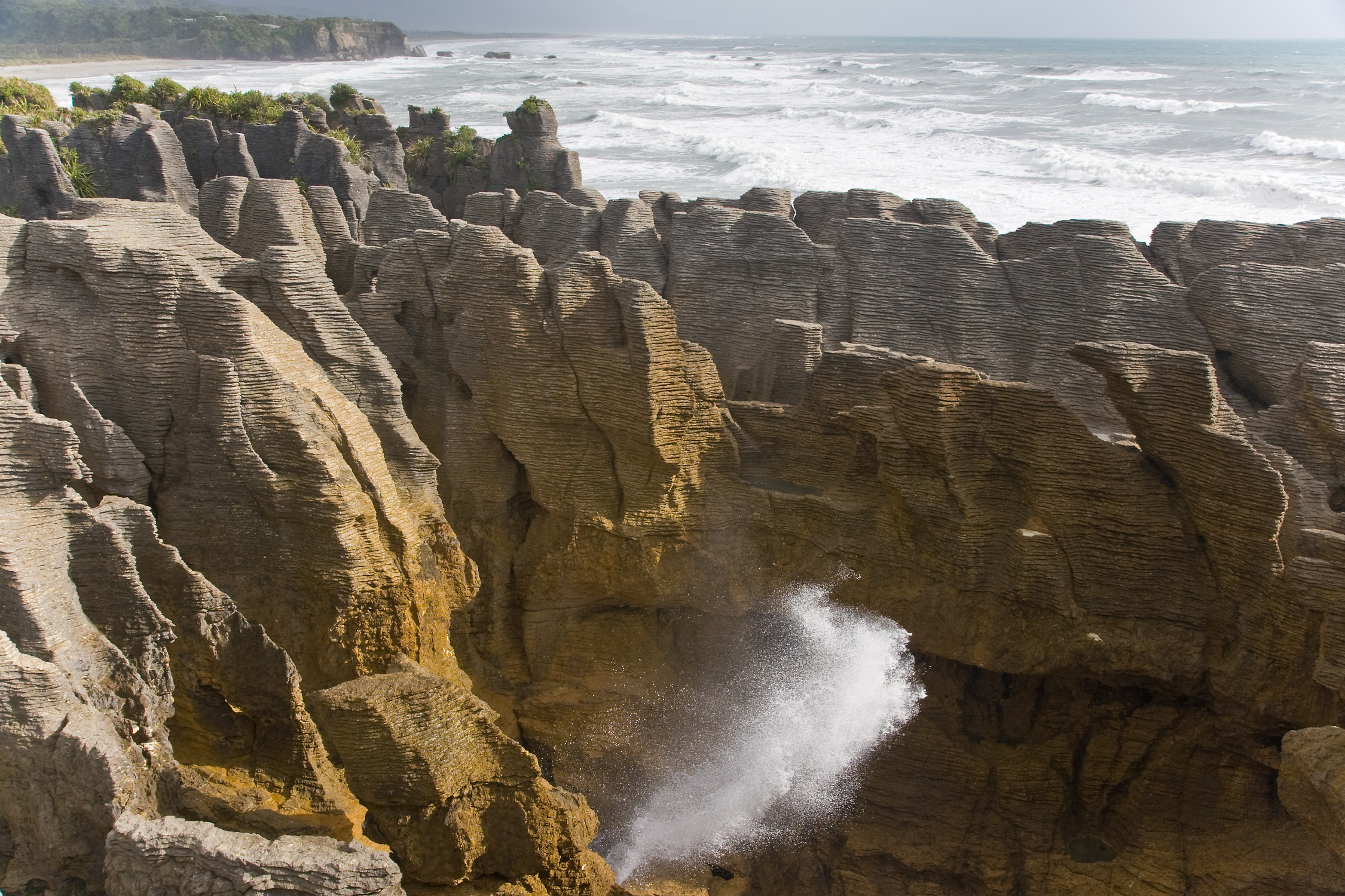 The Pancake Rocks in Punakaiki (New Zealand) approximately one hour before high tide. The seawater bursts through one of the blowholes.